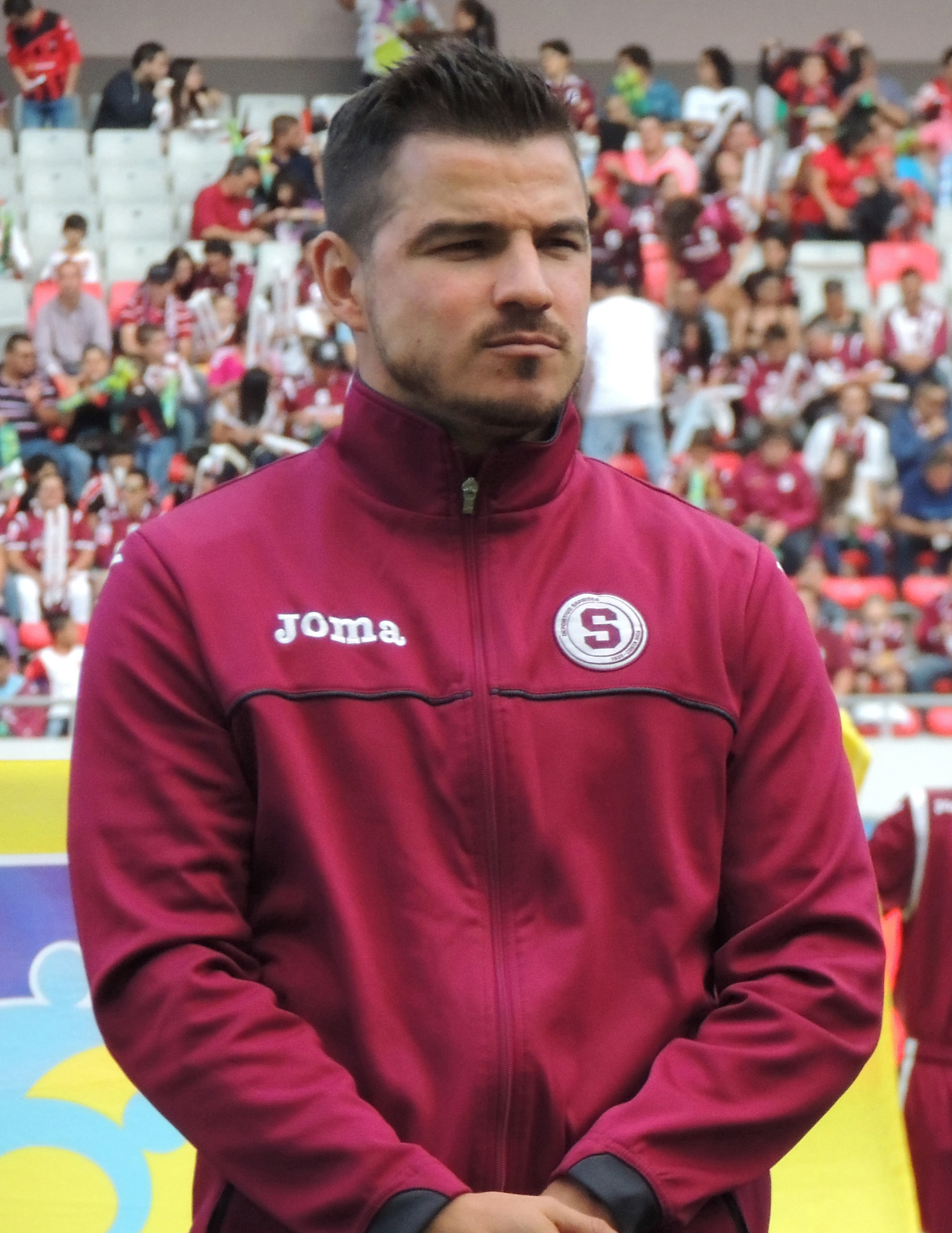 Crop of the original image found on Flickr. The purpose is to show the late footballer Gabriel Badilla